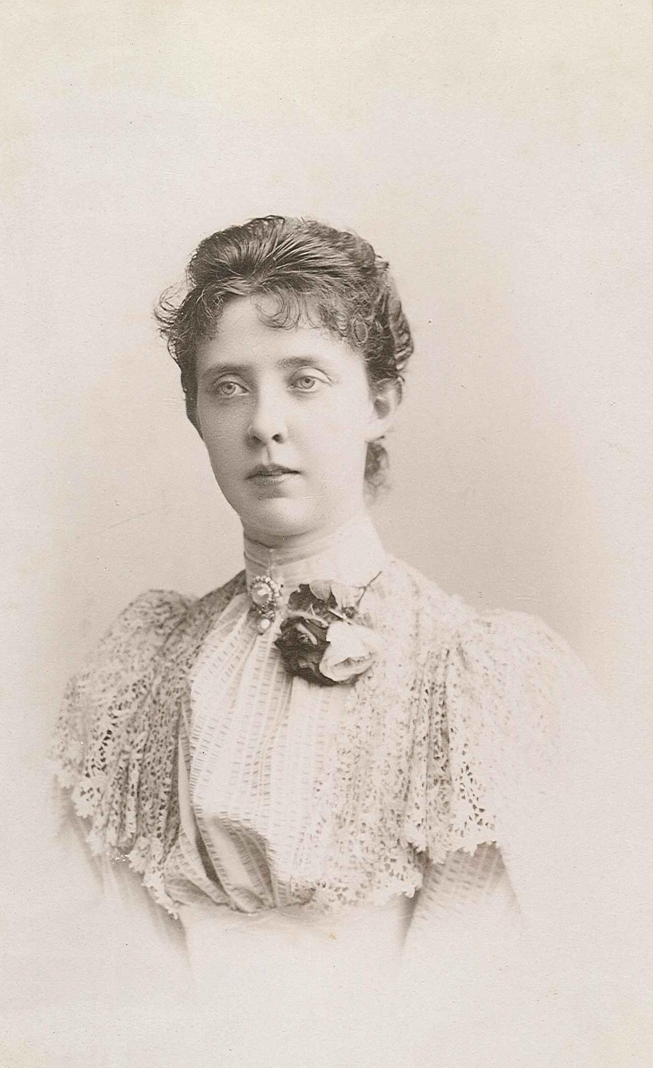 Duchess Margarete Sophie of Wuerttemberg, née Archduchess of Austrie